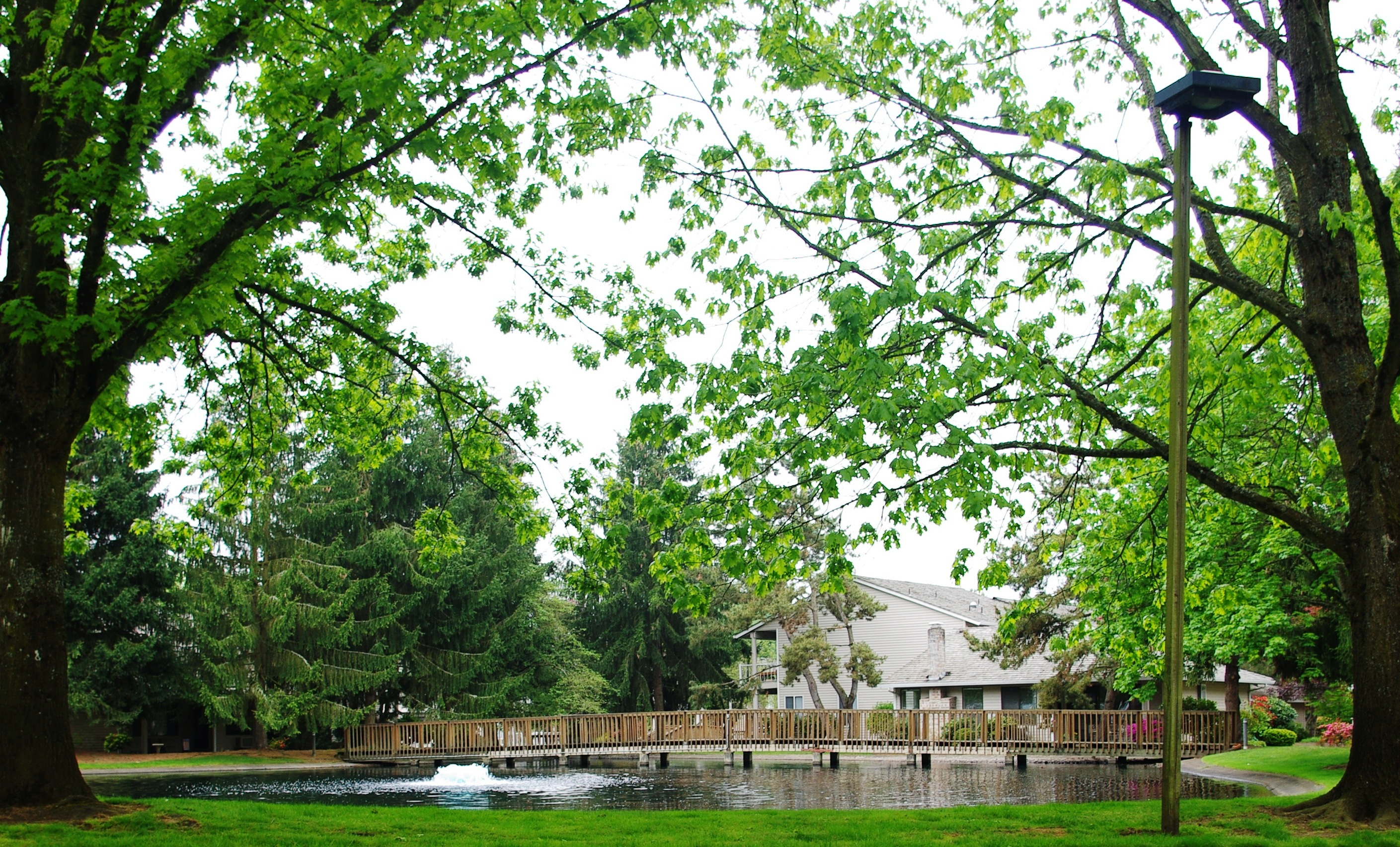 Charbonneau, Oregon. Pond and bridge